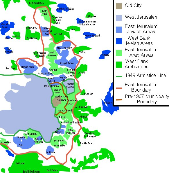 Map of East Jerusalem Old City West Jerusalem and Mount Scopus East Jerusalem, Jewish areas West Bank, Jewish areas East Jerusalem, Arab areas West Bank, Arab areas —1949 Armistice Line —East Jerusalem Boundary —Pre-1967 Municipality Boundary